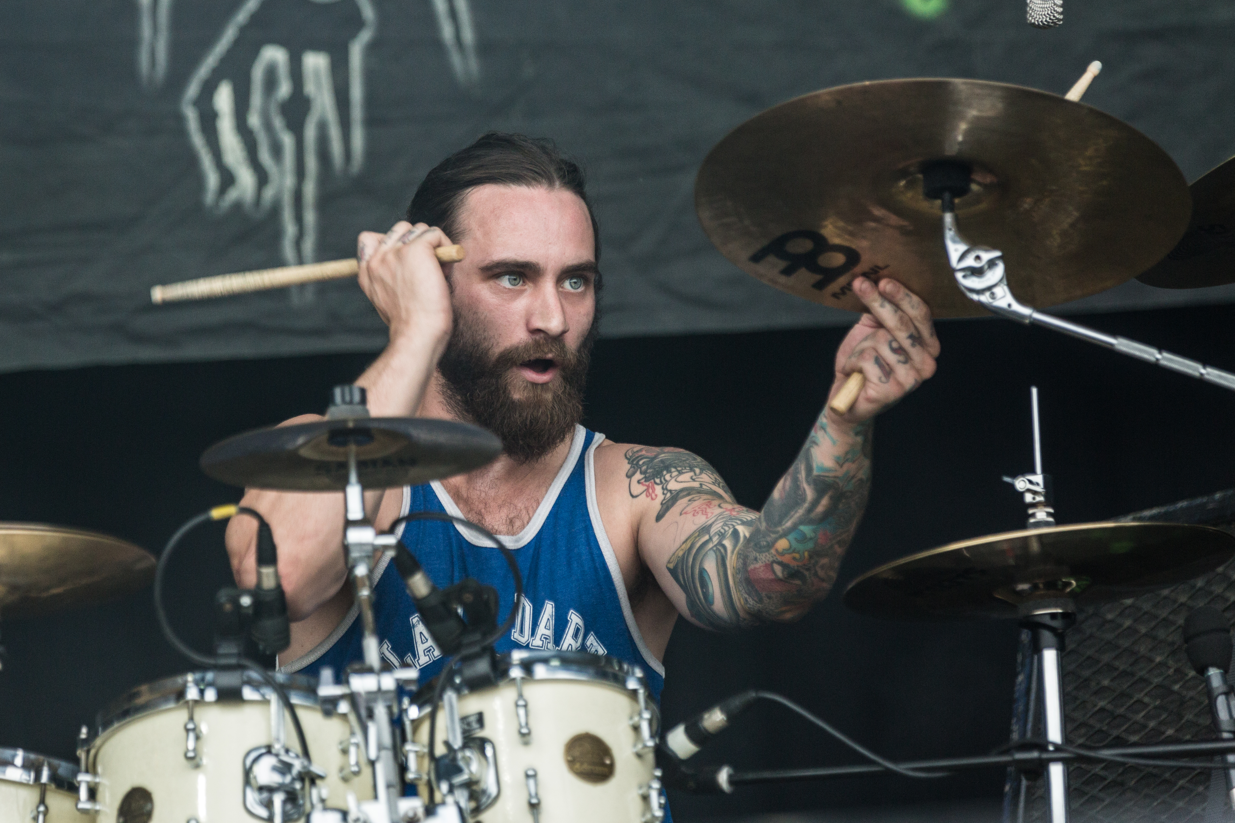 The American death metal band Suffocation at the Summer Breeze Open Air 2017 in Dinkelsbühl/Germany.